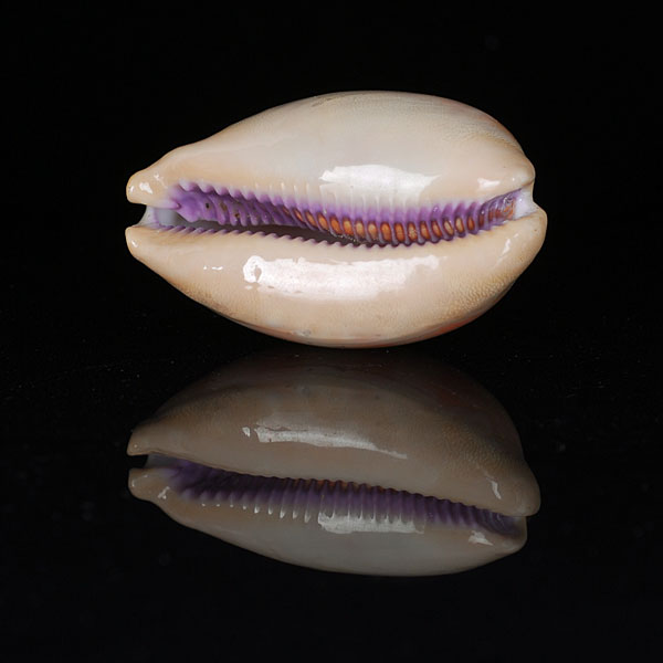 Cypraea Lyncina leviathan